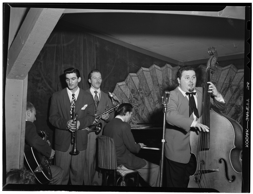 Gottlieb, William P., 1917-, photographer. [Portrait of Chubby Jackson, Conte Candoli, and Emmett Carls, Esquire Club, Valley Stream, Long Island, N.Y., ca. Apr. 1947] 1 negative : b&w ; 3 1/4 x 4 1/4 in. Notes: Gottlieb Collection Assignment No. 149 Purchase William P. Gottlieb Forms part of: William P. Gottlieb Collection (Library of Congress). Subjects: Jackson, Chubby Candoli, Conte, 1927- Carls, Emmett Jazz musicians--1940-1950. Double bassists--1940-1950. Esquire Club Format: Portrait photographs--1940-1950. Group portraits--1940-1950. Film negatives--1940-1950. Rights Info: Mr. Gottlieb has dedicated these works to the public domain, but rights of privacy and publicity may apply. Repository: (negative) Library of Congress, Prints & Photographs Division, Washington D.C. 20540 USA, Part Of: William P. Gottlieb Collection (DLC) 99-401005 General information about the Gottlieb Collection is available at Persistent URL: Call Number: LC-GLB13- 1251 This work is from the William P. Gottlieb collection at the Library of Congress. Rights and restrictions.In accordance with the wishes of William Gottlieb, the photographs in this collection entered into the public domain on February 16, 2010.